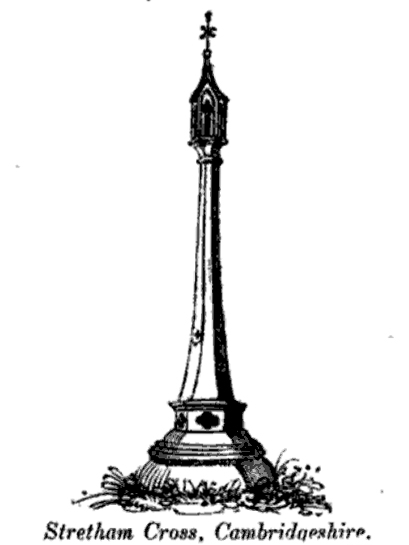 A sketch by Sylvanus Urban of the Stretham village cross from The Gentleman's Magazine and Historical Chronicle, July to December 1832 Volume CII part the second